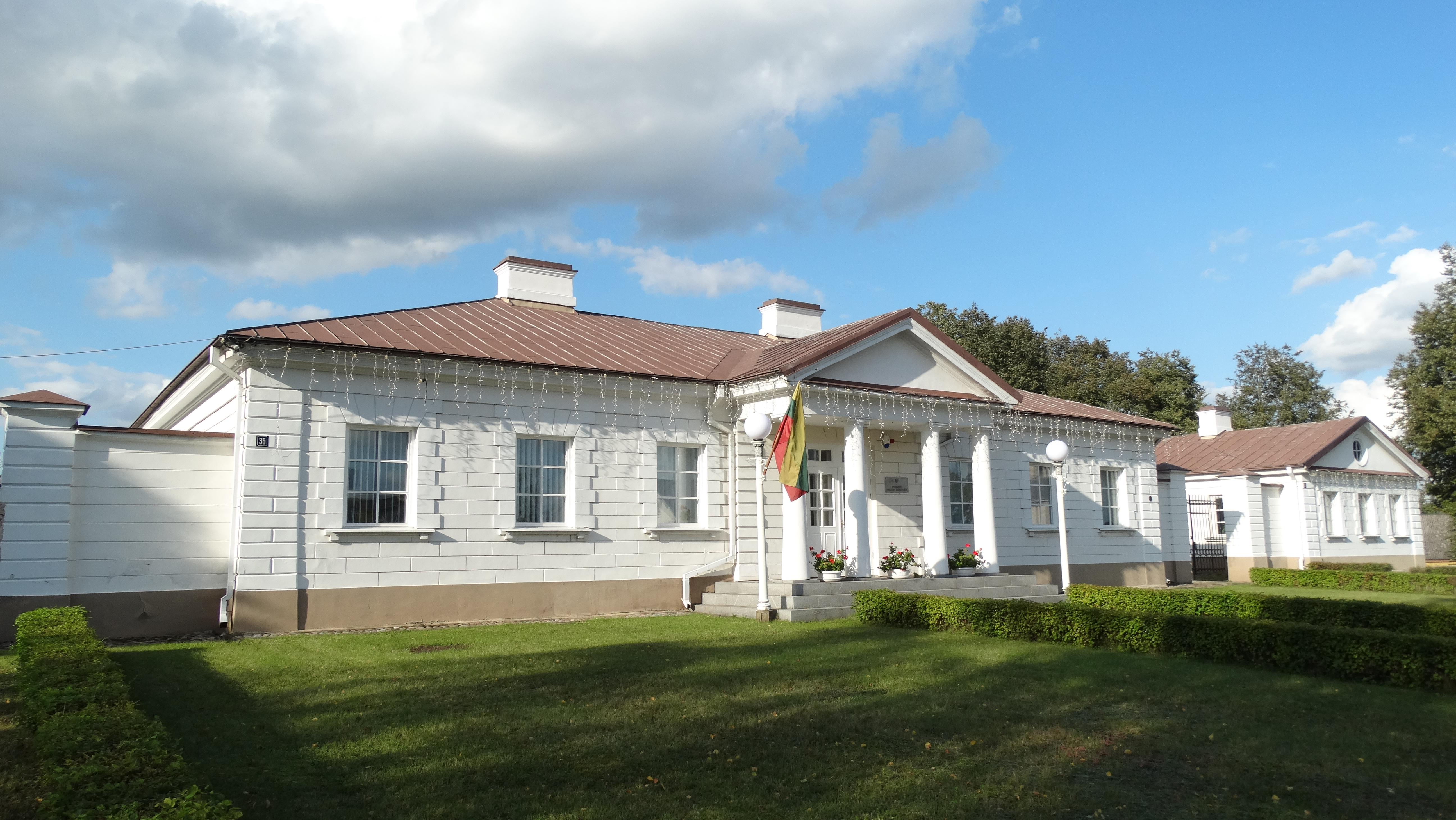 Art school, former post station by the road St. Petersburg-Warsaw in Utena, Lithuania